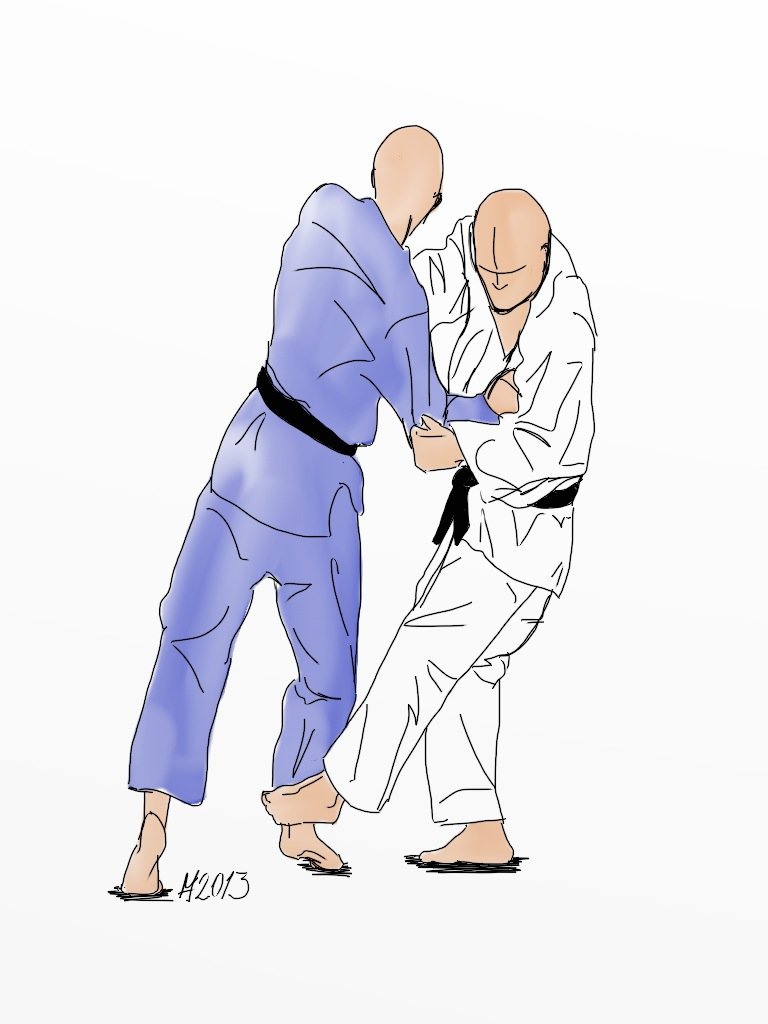 Illustration of the judo throw ko-soto-gari, or small-outside-reap, a foot-sweep.